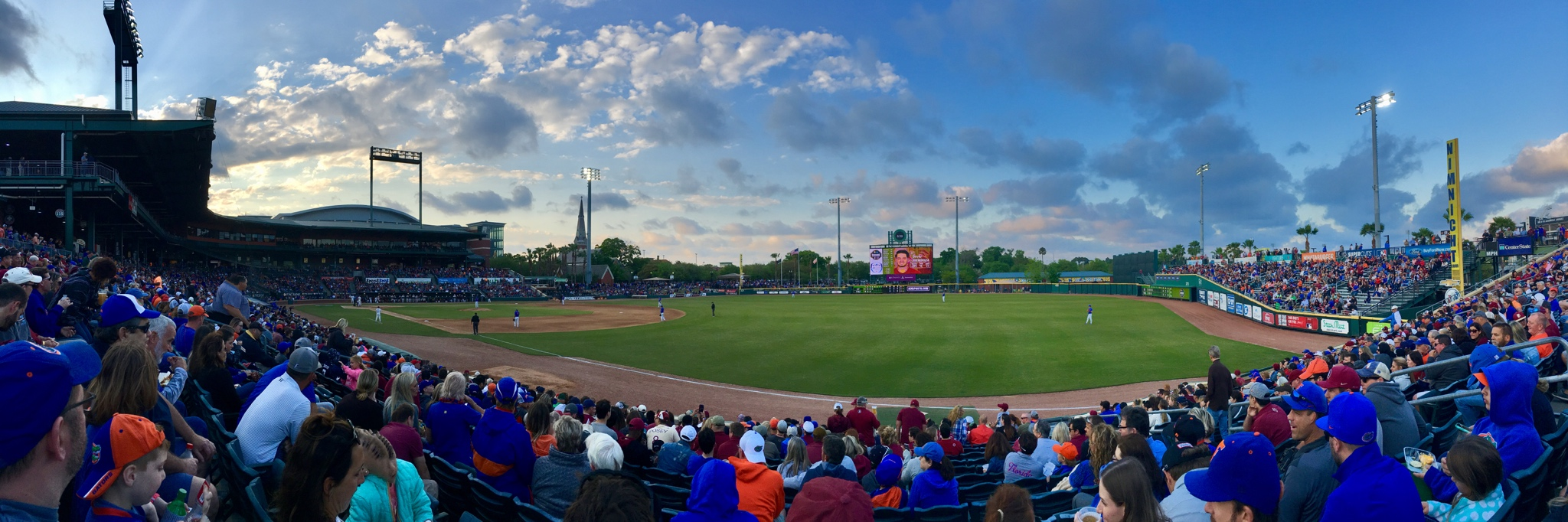 Florida Gators versus Florida State Seminoles at the Baseball Grounds of Jacksonville (March 26, 2019) Final Score: 4-2, Florida Attendance: 8,041